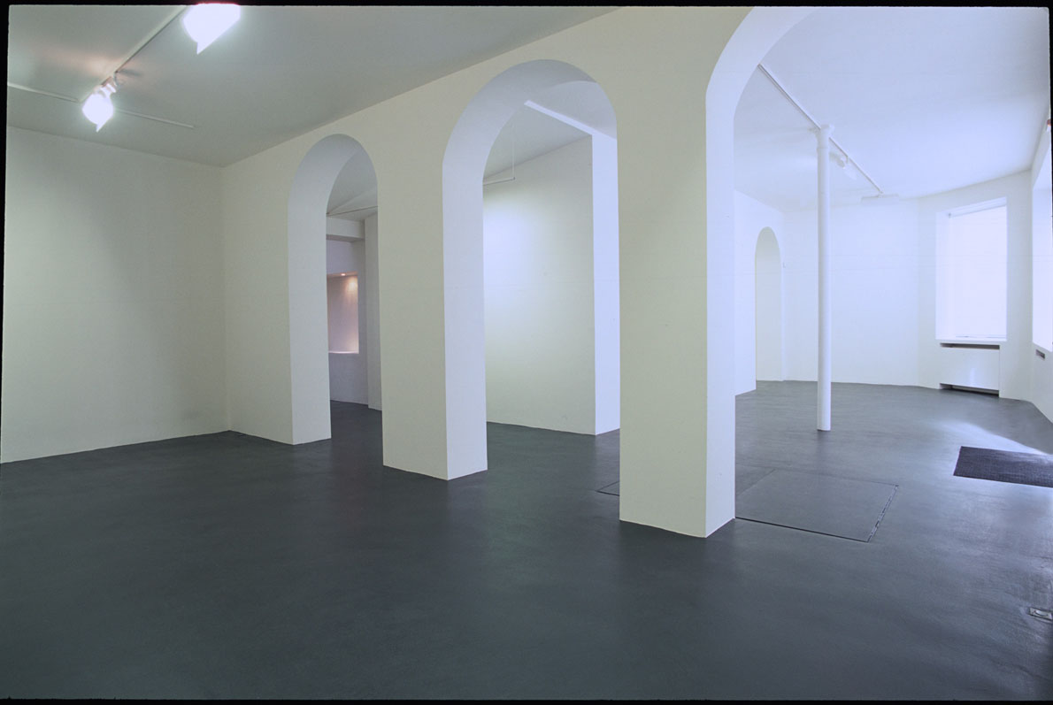 Interior view of Nathalie Obadia's Gallery in Paris